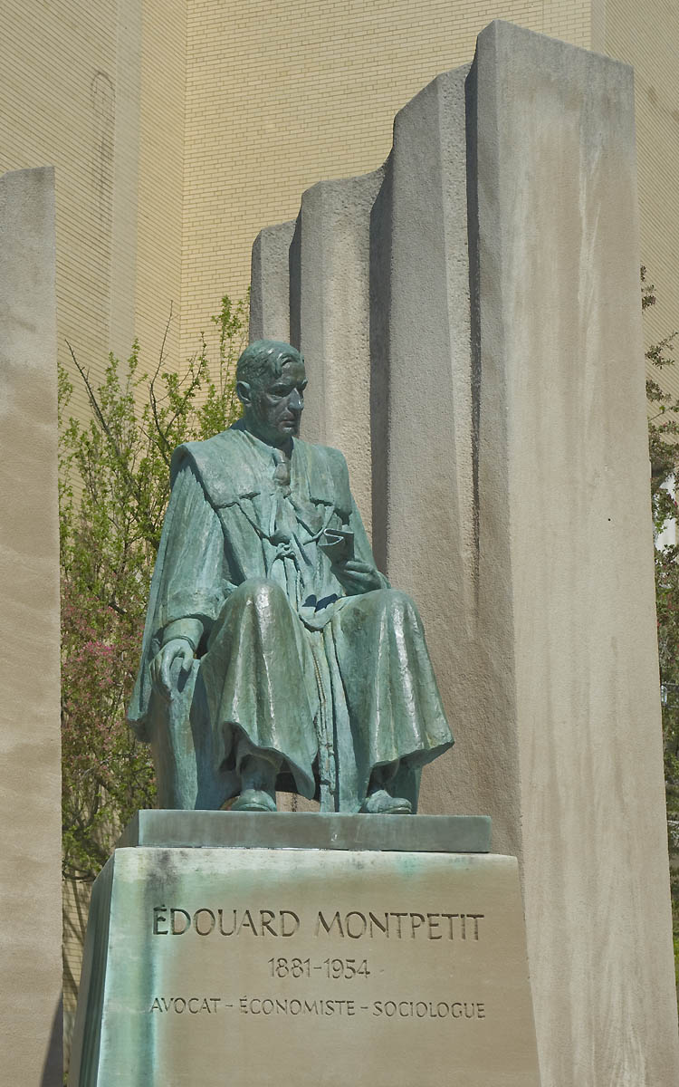 Statue of Édouard Montpetit by Sylvia Daoust (1902–2004), on the Université de Montréal campus (1967)